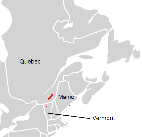 Map showing the distribution of Adiantum viridimontanum in northeastern North America.